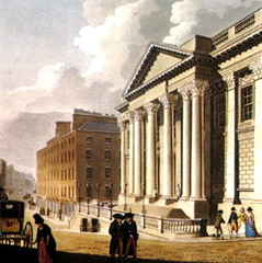 One of a famous set of eighteenth century Malton's prints of Dublin